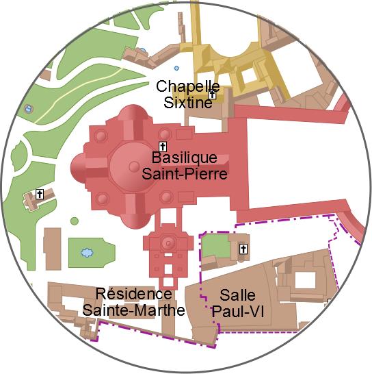 Detail of the map of the Vatican City about the Conclave (French version)